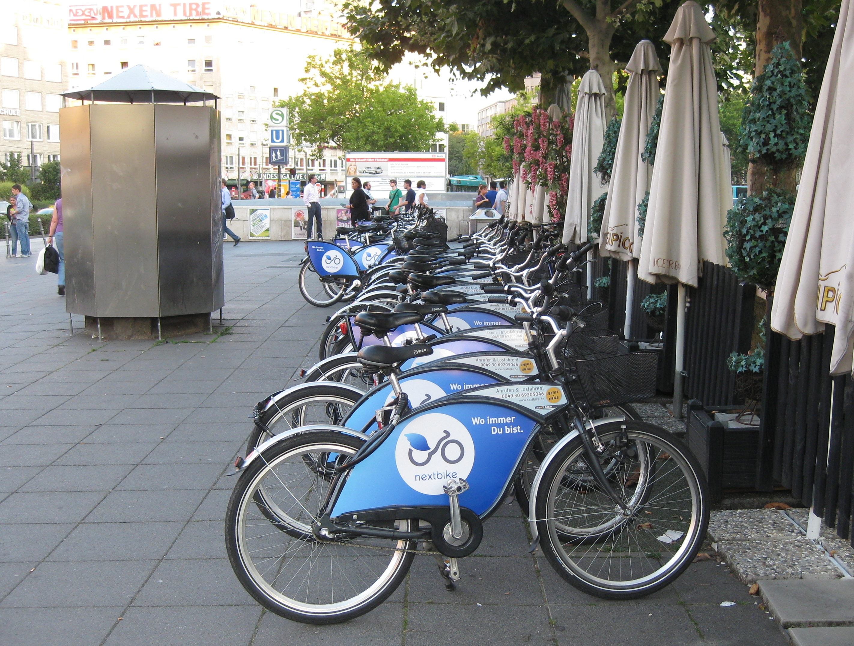 Bicycle to rent (nextbike); station in Frankfurt/Main, germany in front of the main entrance at the Hauptbahnhof (main station).